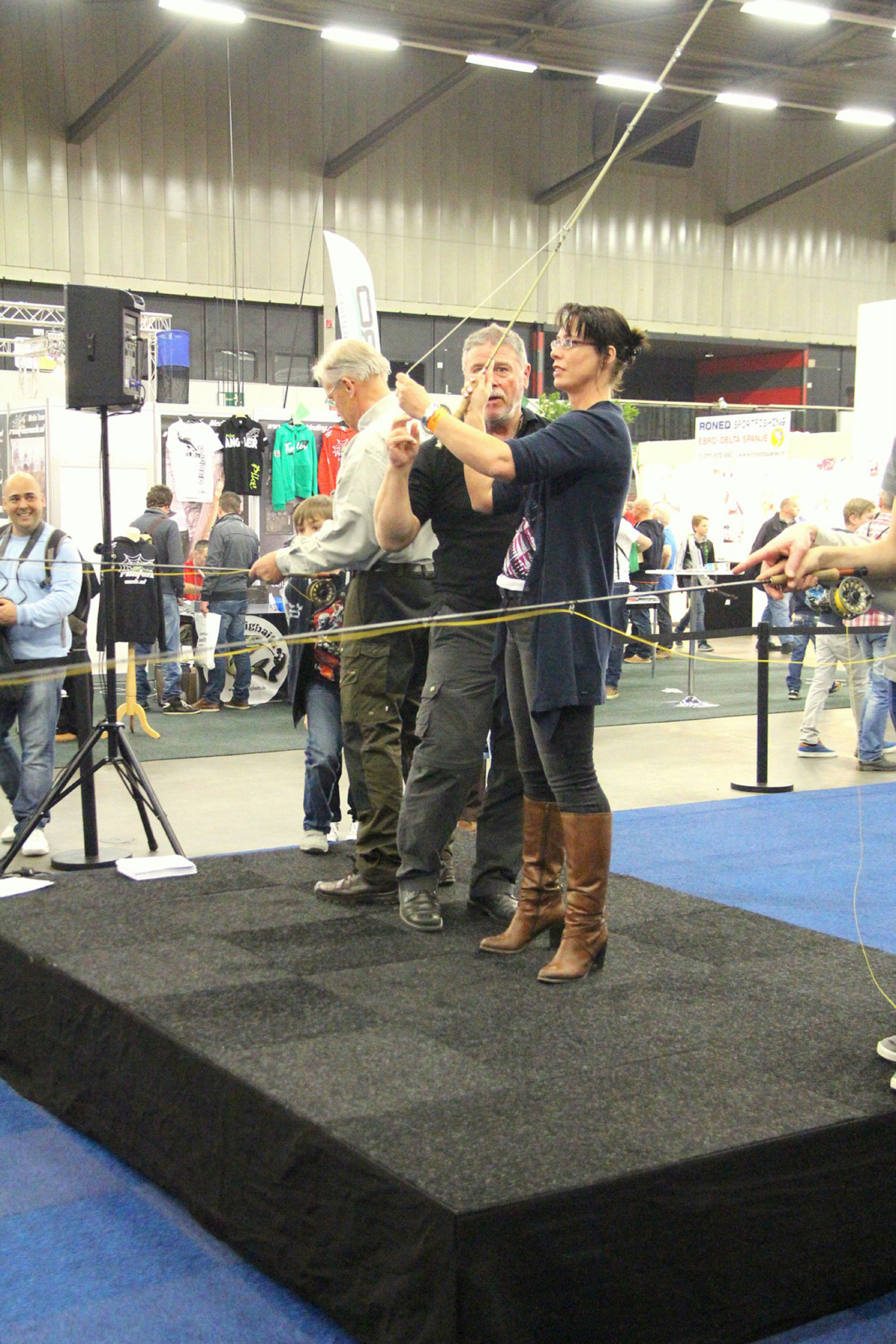 Instructor fly fishing shows a woman fly casting on the visma in Holland